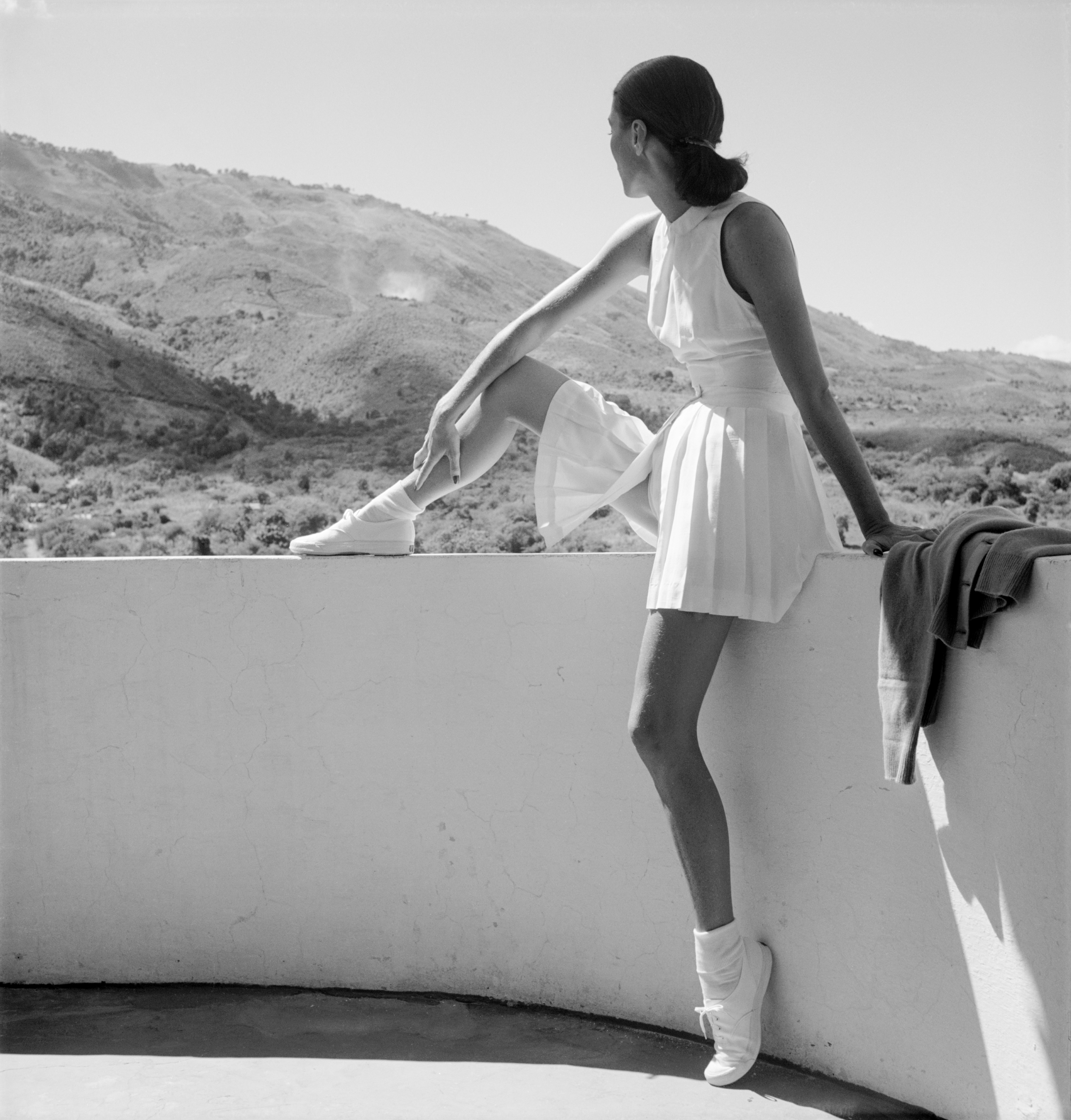 Woman wearing tennis outfit, seated on wall, with one leg on top of wall, looking at the mountains behind her. Photograph by Toni Frissell, published in Harpers Bazaar, February 1947. From the Toni Frissell collection at the U.S. Library of Congress.